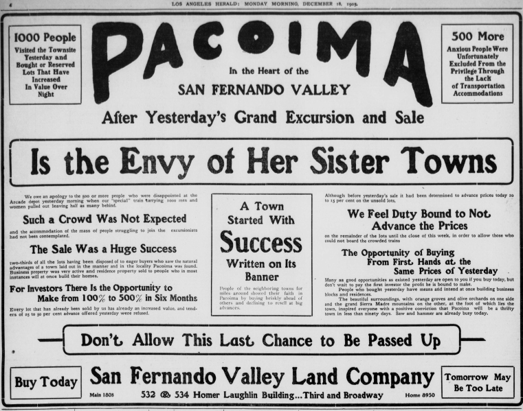 Advertisement for home lots in Pacoima, California, 1905, as published in the Los Angeles Herald.